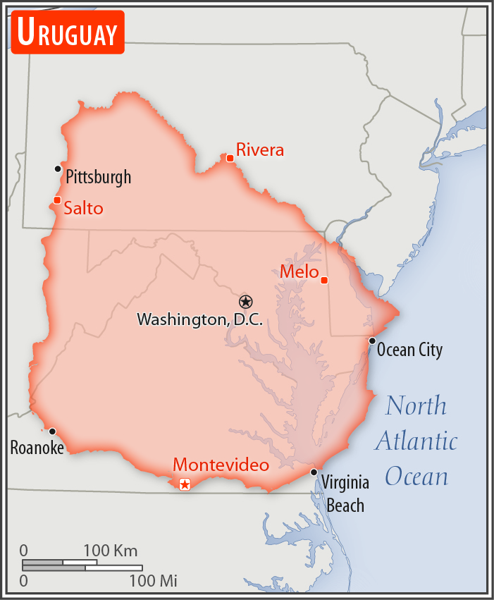 Comparison of the areas of two country. The area of Uruguay with biggest cities (red) overlay the area of the United States of America (gray background).